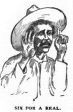 Illustration from book, Face To Face With The Mexicans. Illustration name is self-explanatory.